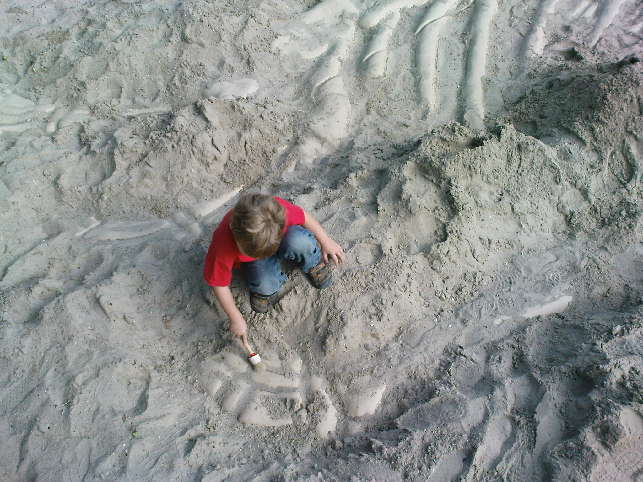 This image depicts the 'playground' excavation area of Dinosaurierland Ruegen.